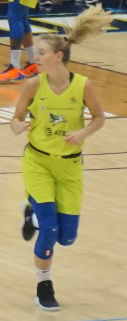 Karlie Samuelson during the Seattle Storm vs. Dallas Wings basketball game at College Park Center in Arlington, Texas (United States). Seattle won 78–64.